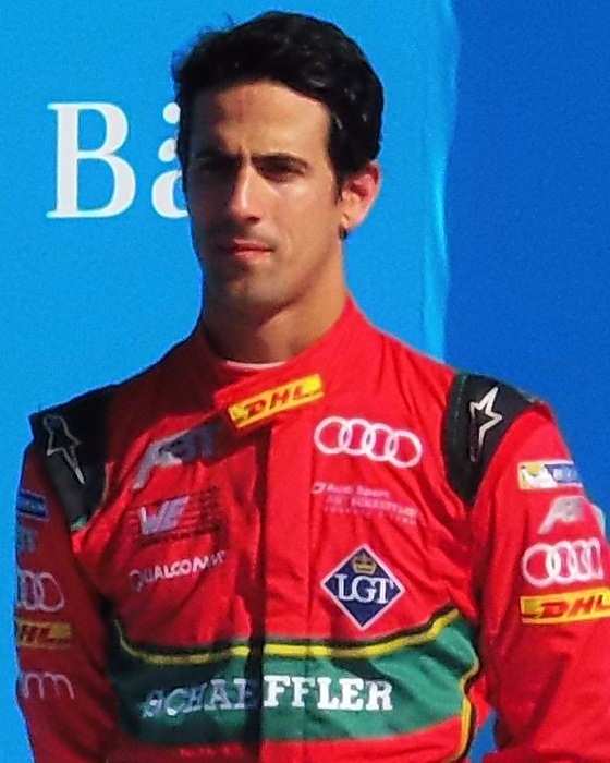 Lucas di Grassi at the podium ceremony after the second race of the 2017 Berlin ePrix.